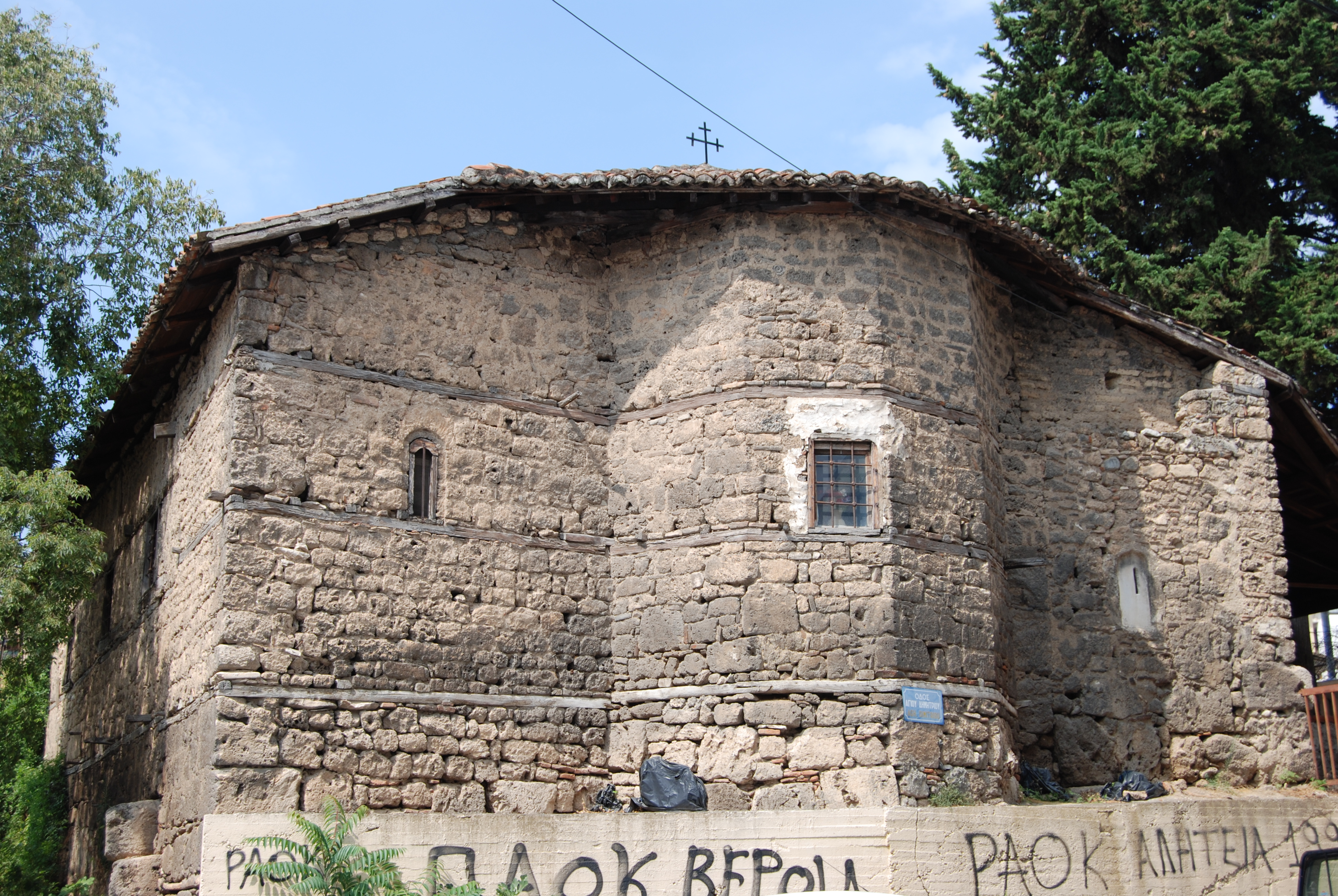 St. Demetrios, BerChurches in Veria